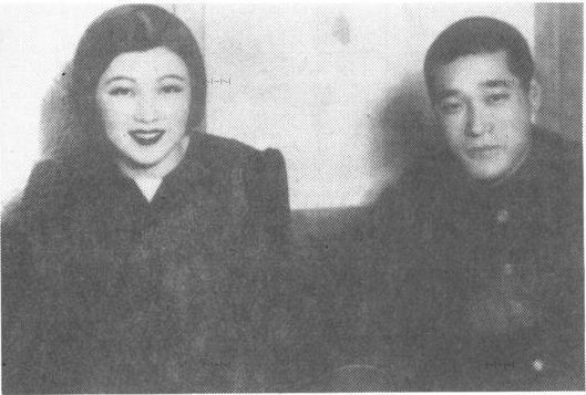 1936 Summer Olympic marathon Immediately won after the ampion, Sohn and Choi Seung-hee